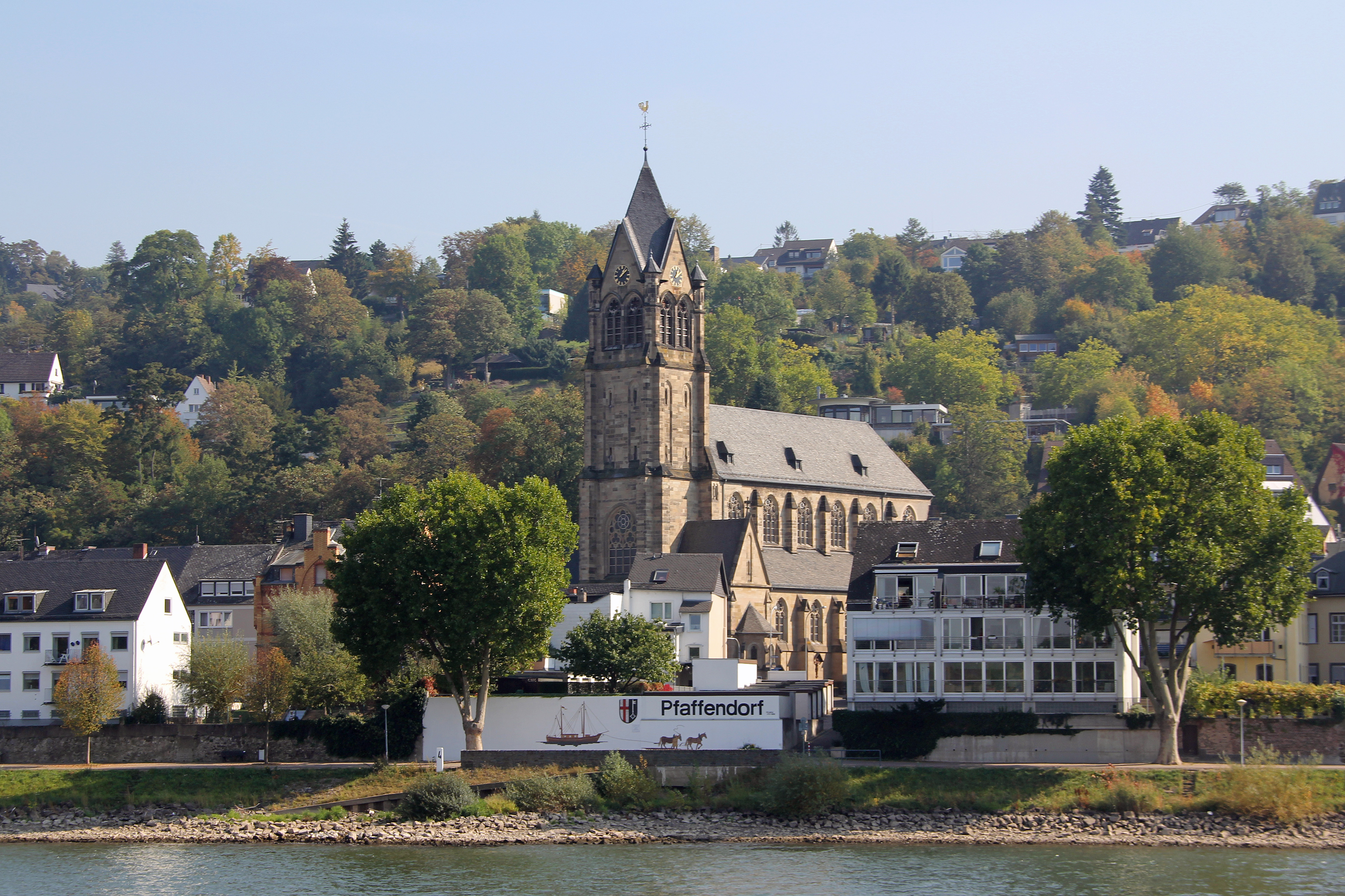 St. Peter und Paul church in Koblenz